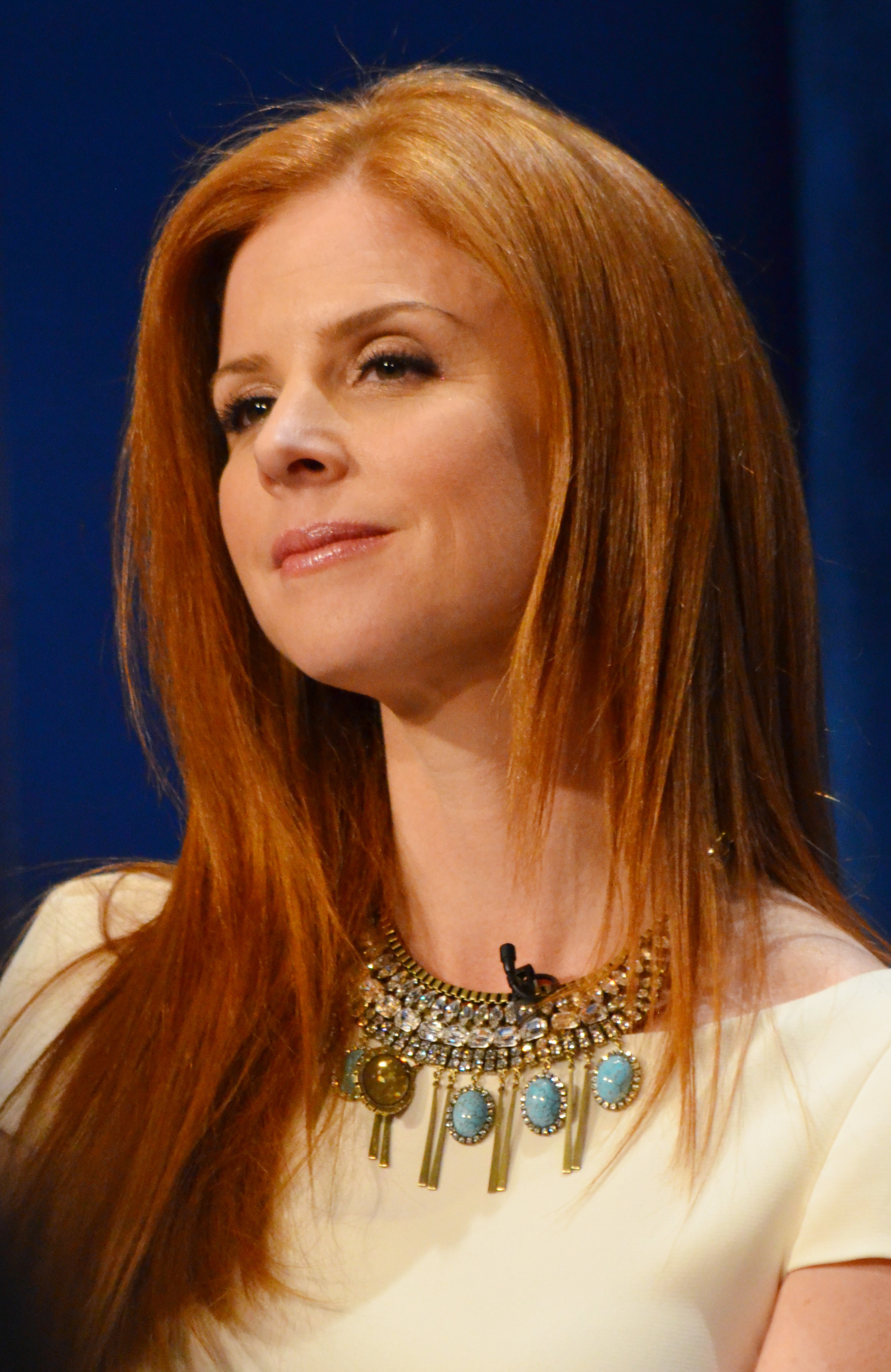 Sarah Rafferty at a promotional event for the TV show Suits